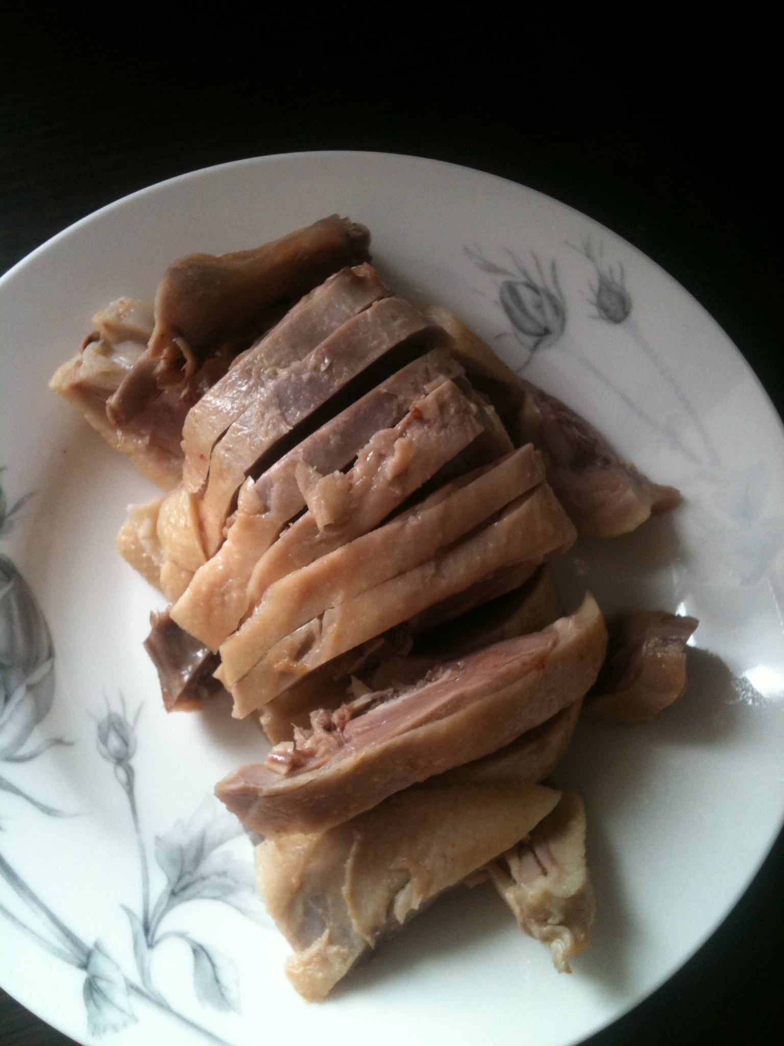 This is the famous Nanjing salted duck